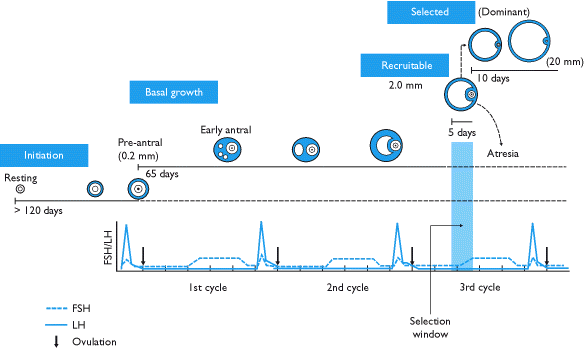 Diagram for folliculogenesis. Obtained from 画像:卵胞形成チャート.gif